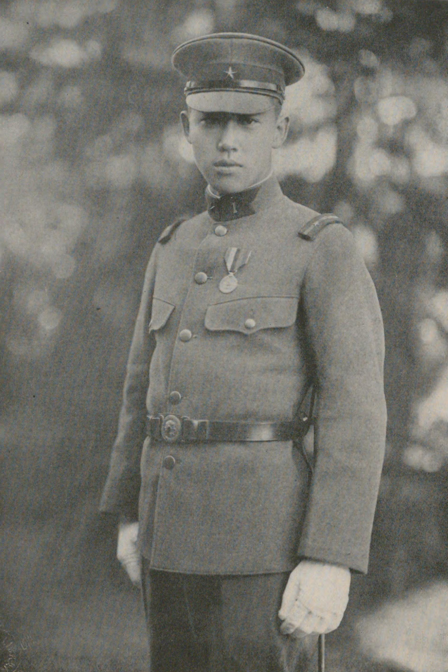 Prince Yi Wu